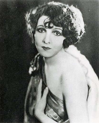 Carmelita Geraghty